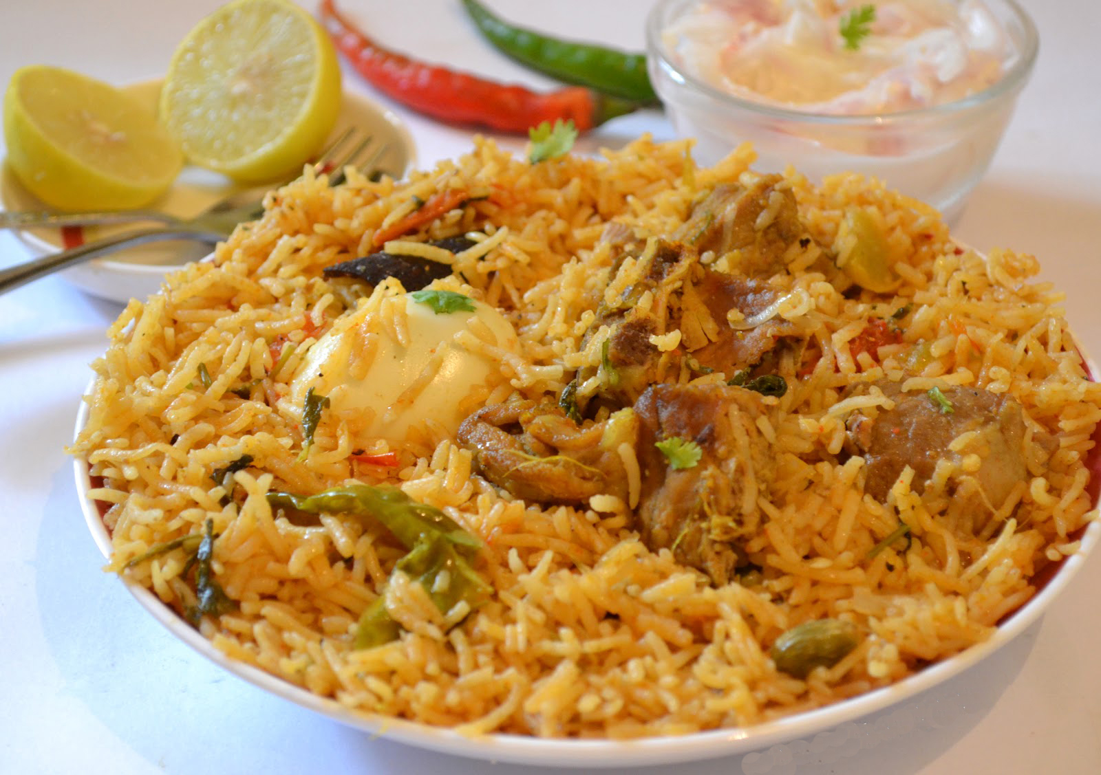 Biriyani image